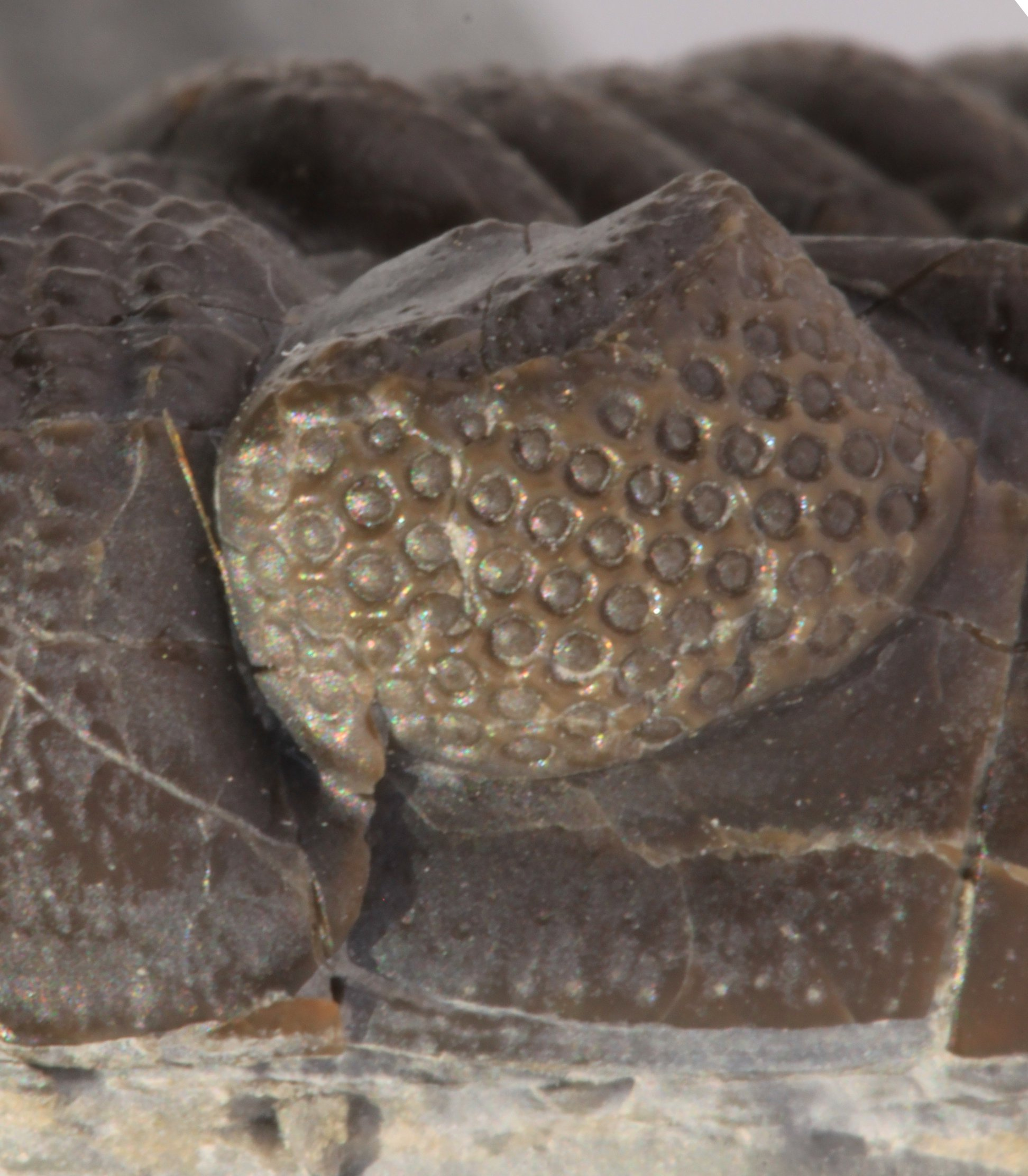 A Schizochroal eye of the trilobite Phacops rana, eye dimensions 8mm across by 5.5mm high, found near Sylvania, Ohio, USA, from the Devonian